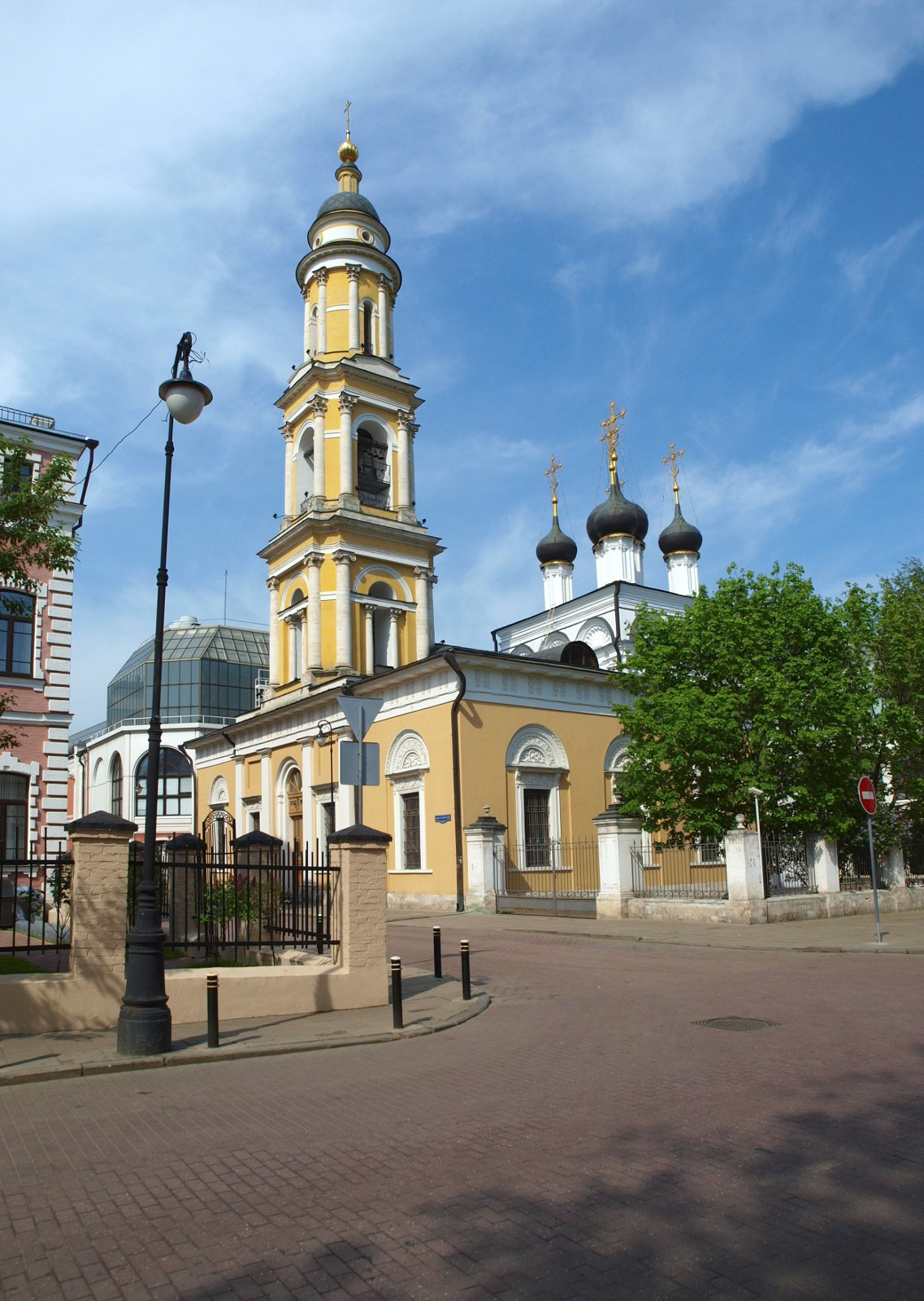 Church of St. Nicholas in Tolmachi, Moscow (stands on SW corner of Tretyakov Gallery block).